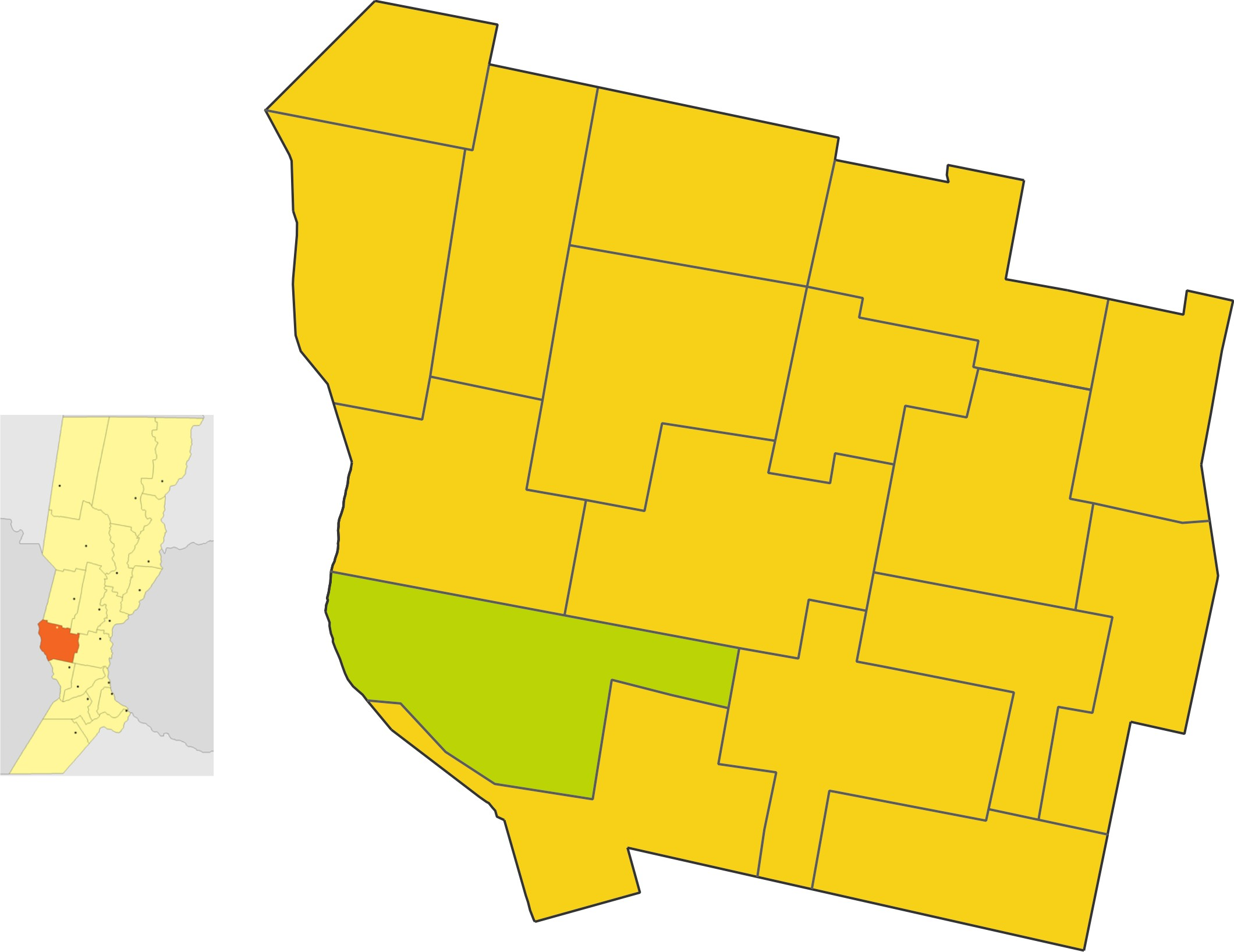 Map of the comuna de Piamonte in San Martin department, Santa Fe province, Argentina